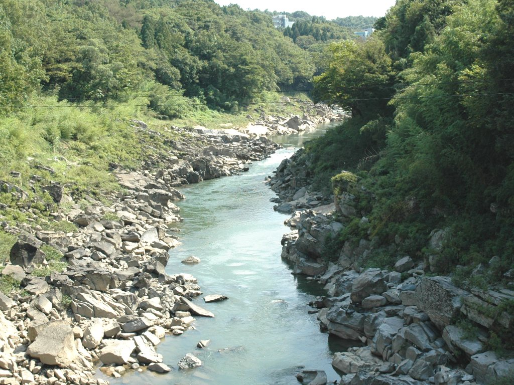 The Abukuma river that flows between Iino twon and Fukushima city,Japan.